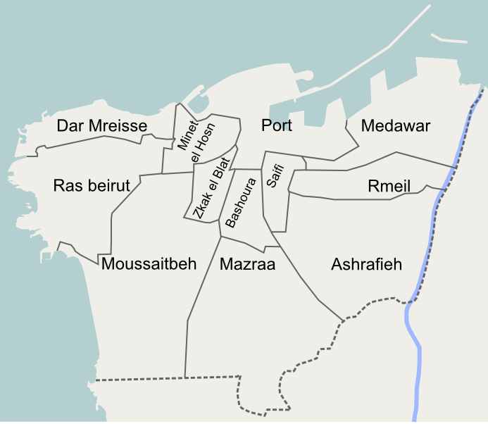 Map over the districts of Beirut This map may be incomplete, and may contain errors. Don't rely solely on it for navigation.